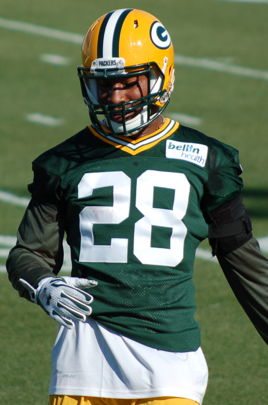 2015 Packers training camp